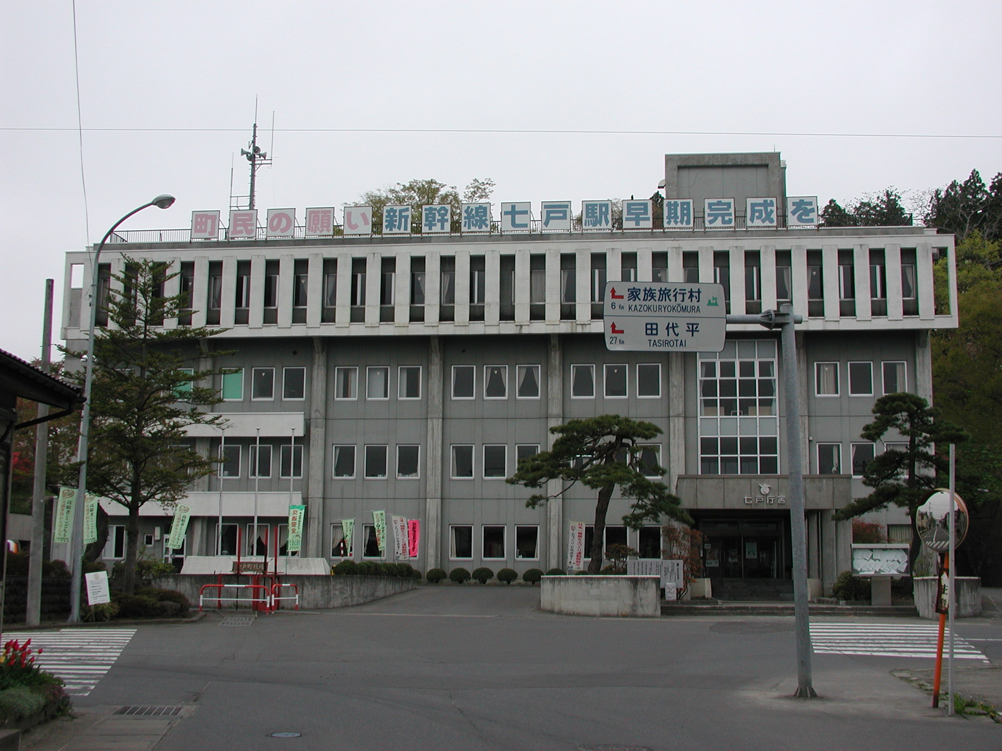 Shichinohe Town Office Shichinohe Hall